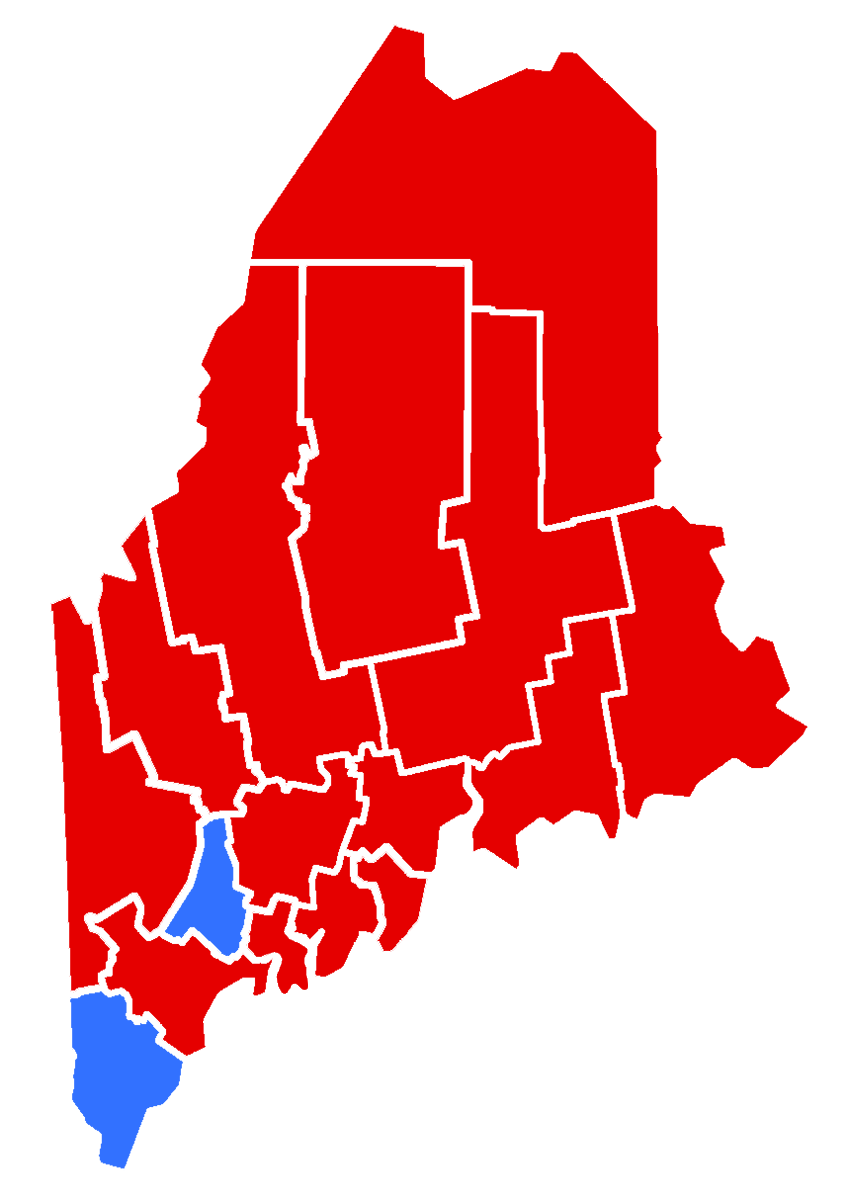 Maine gubernatorial election in 1948 by county. Made in photoshop.